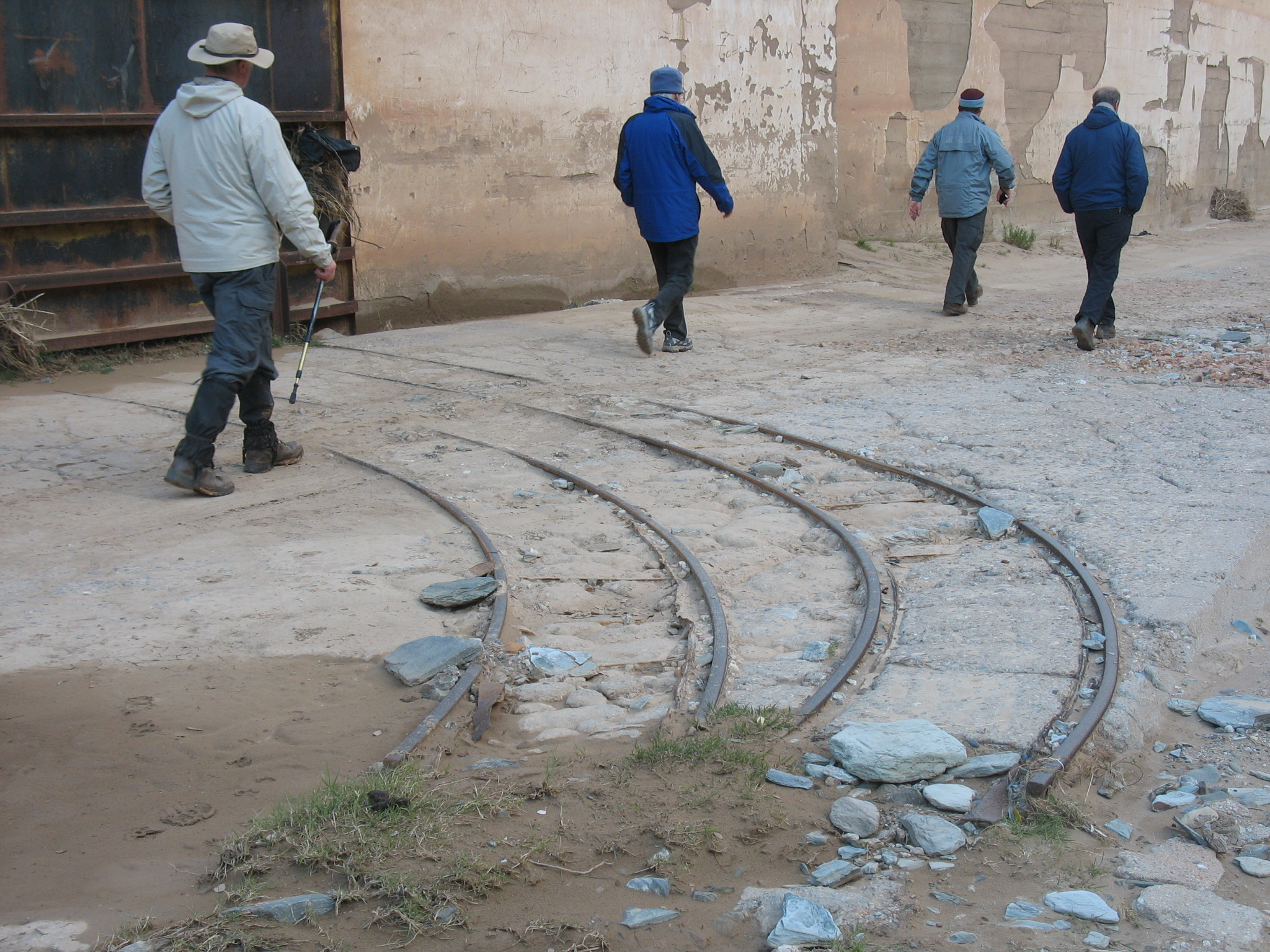 Some of the 600mm. gauge tracks in the roadway at the former El Ahouli silver-lead mines near Midelt, Morocco. Photographer: Bob Rainbow, 4th November 2008.